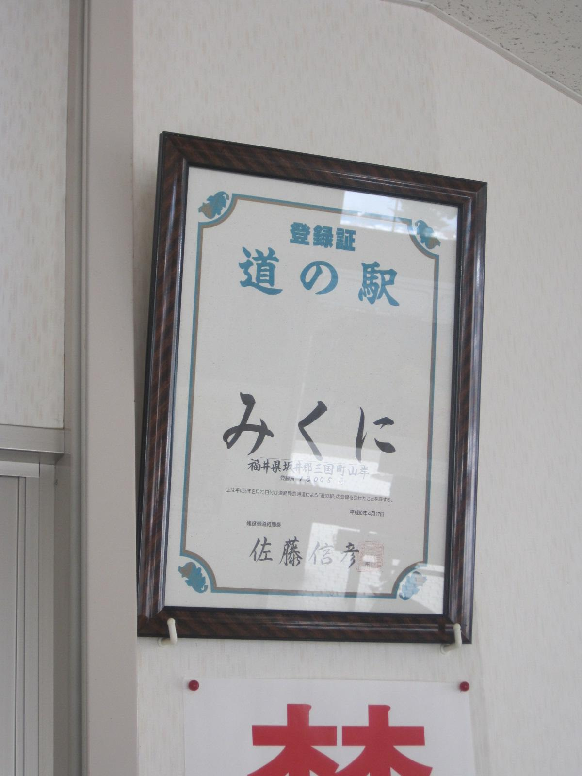 Michinoeki (roadside station) registration certificate issued by the Ministry of Land, Infrastructure, Transport and Tourism for Michinoeki Mikuni in Sakai City, Fukui Prefecture, Japan